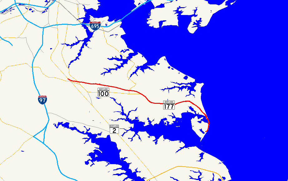 Map of Maryland Route 177